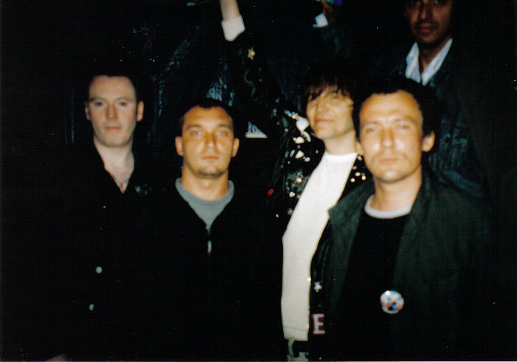 Wilki, Polish music band